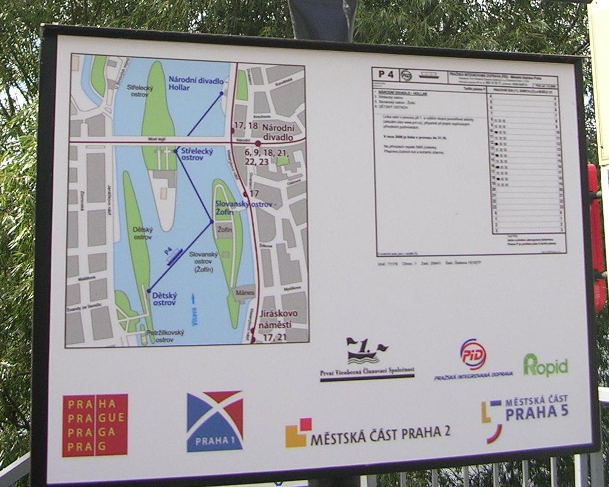 Ferry P4, Prague, the Czech Republic.